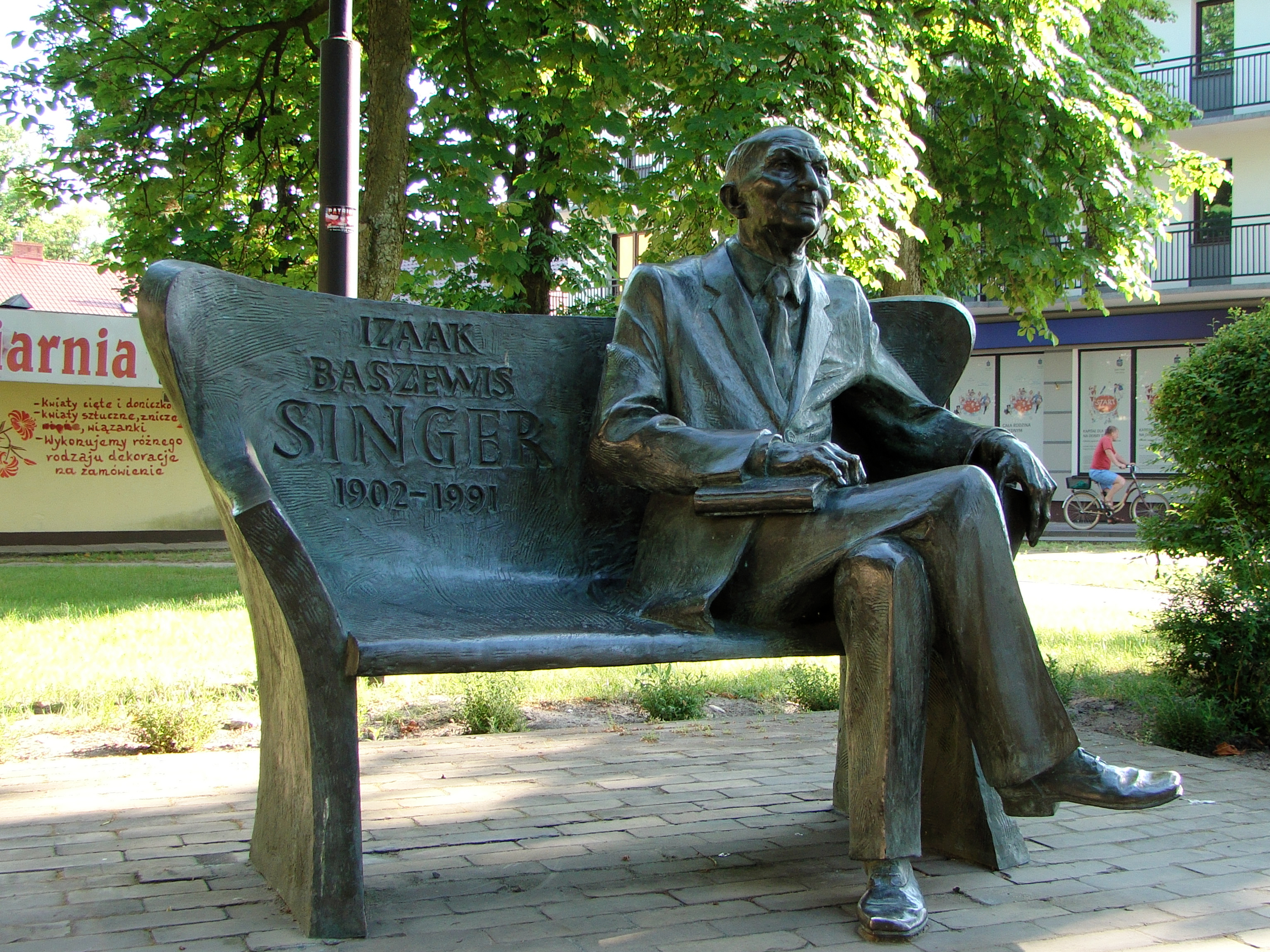 Biłgoraj - Isaac Bashevis Singer's memorial bench